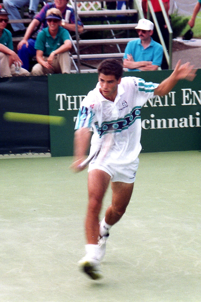 1992 Thriftway Championships Cincinnati, Ohio Film Scan Camera Canon AE1